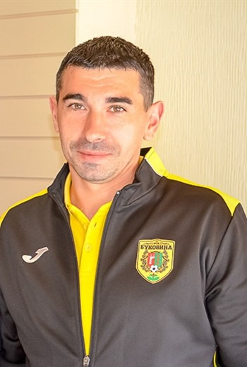 Oleh Kerchu